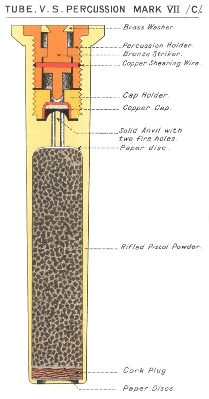 Diagram of British V.S. Percussion ("P") Tube Mk VII. Used for firing BL artillery with Percussion locks, Land and Naval service, except 15 inch, 13.5 inch Mk V and 12 inch Mk VII-VIII. May also be used with QF 12 pounder and 4.7 inch guns. Length approximately 56 mm (2.2 inches). Width at tip (front end) approximately 9.33 mm (0.37 inch). Body is of brass, blackened, with 4 notches cut on the head to distinguish it from electric tubes. Inserted into axial vent with percussion lock for firing.